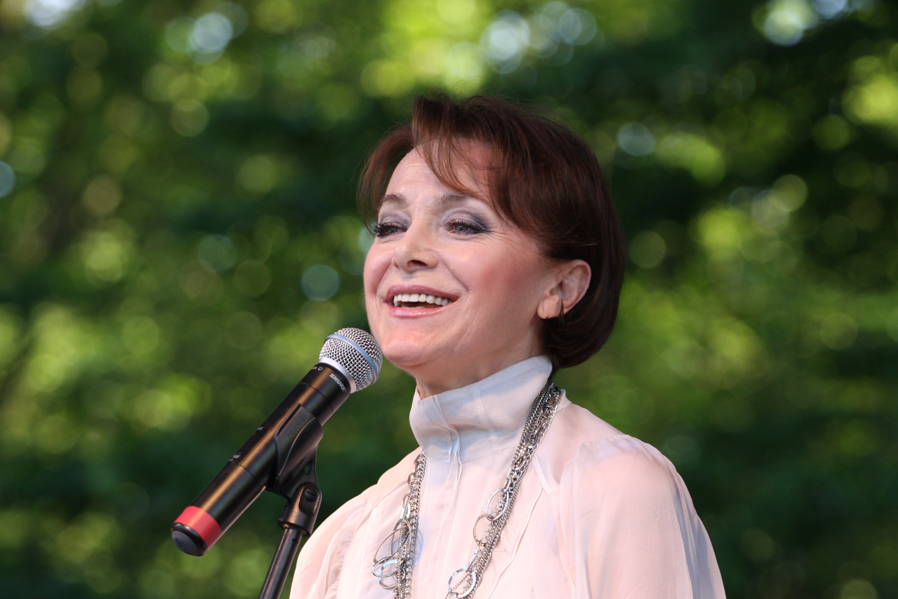 Irena Jarocka during "Dni Rataj", Poznań 2010.